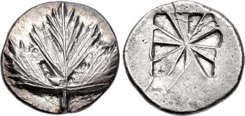 Selinus, 540-515 BC. Silver Didrachm (22mm, 8.70 g). Celery leaf / Incuse square divided into twelve sections.